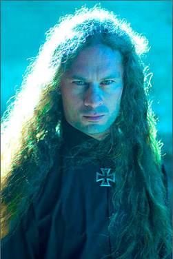 Marcin "Novy" Nowak (bass), member of polish death metal band Vader